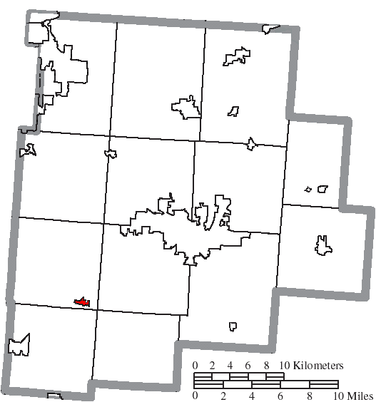 Map of the municipal and township boundaries of Fairfield County, Ohio, United States, as of the 2000 census, with the location of the village of Amanda highlighted. Township borders are shown only in unincorporated areas in order to differentiate incorporated and unincorporated areas more clearly.